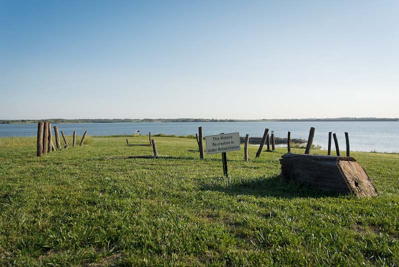 Aker Cemetery The historic reconstruction is under rehabilitation. The Aker Cemetery is off this point under the waters of Smithville Lake.